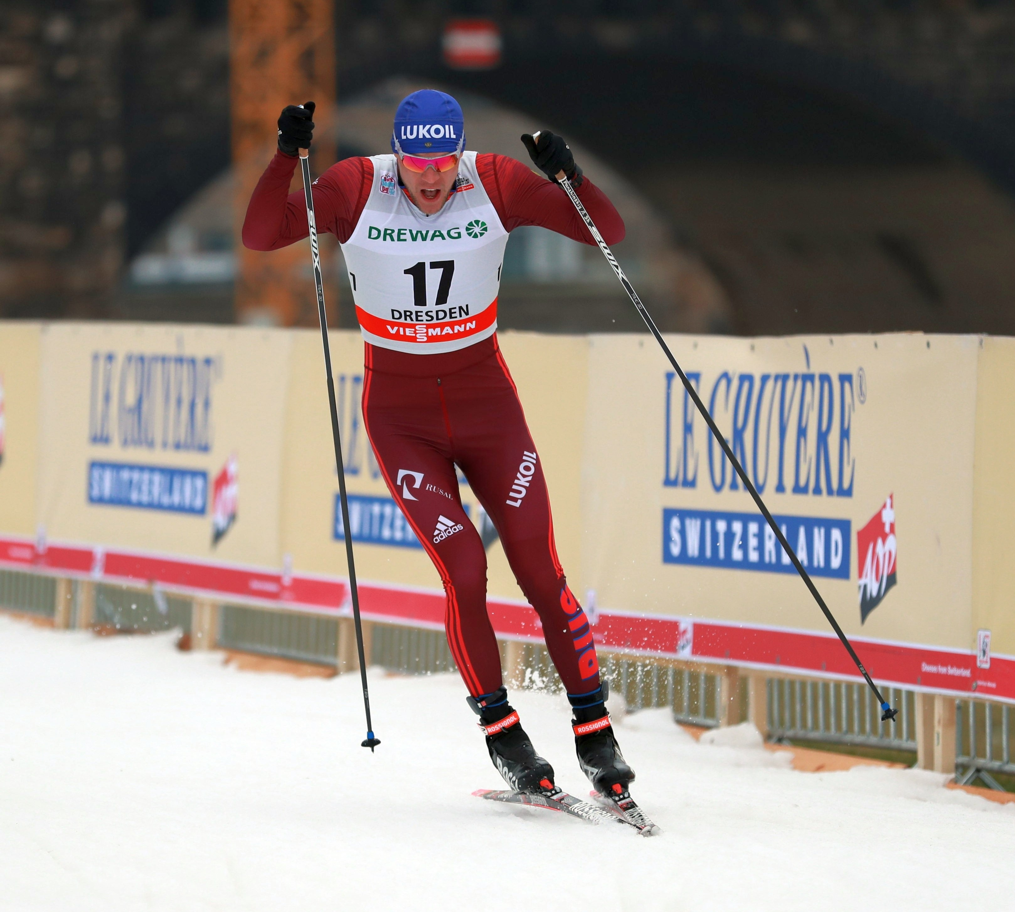 Mens Prolog at the FIS Cross-Country World Cup Dresden 2018: Alexander Panzhinskiy